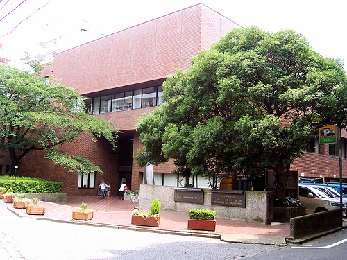 Goethe Institute Tokyo / German Cultural Center, Tokyo